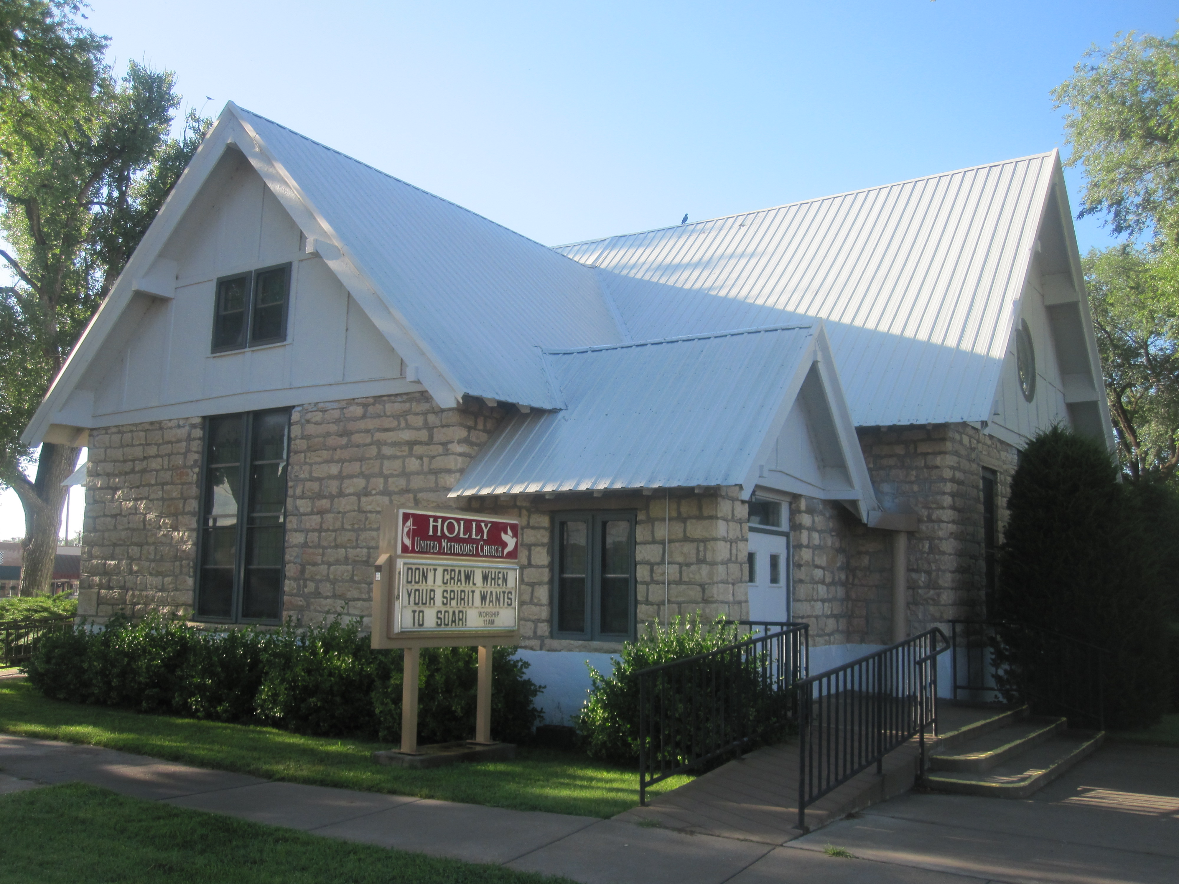 I took photo with Canon camera in Holly, CO.